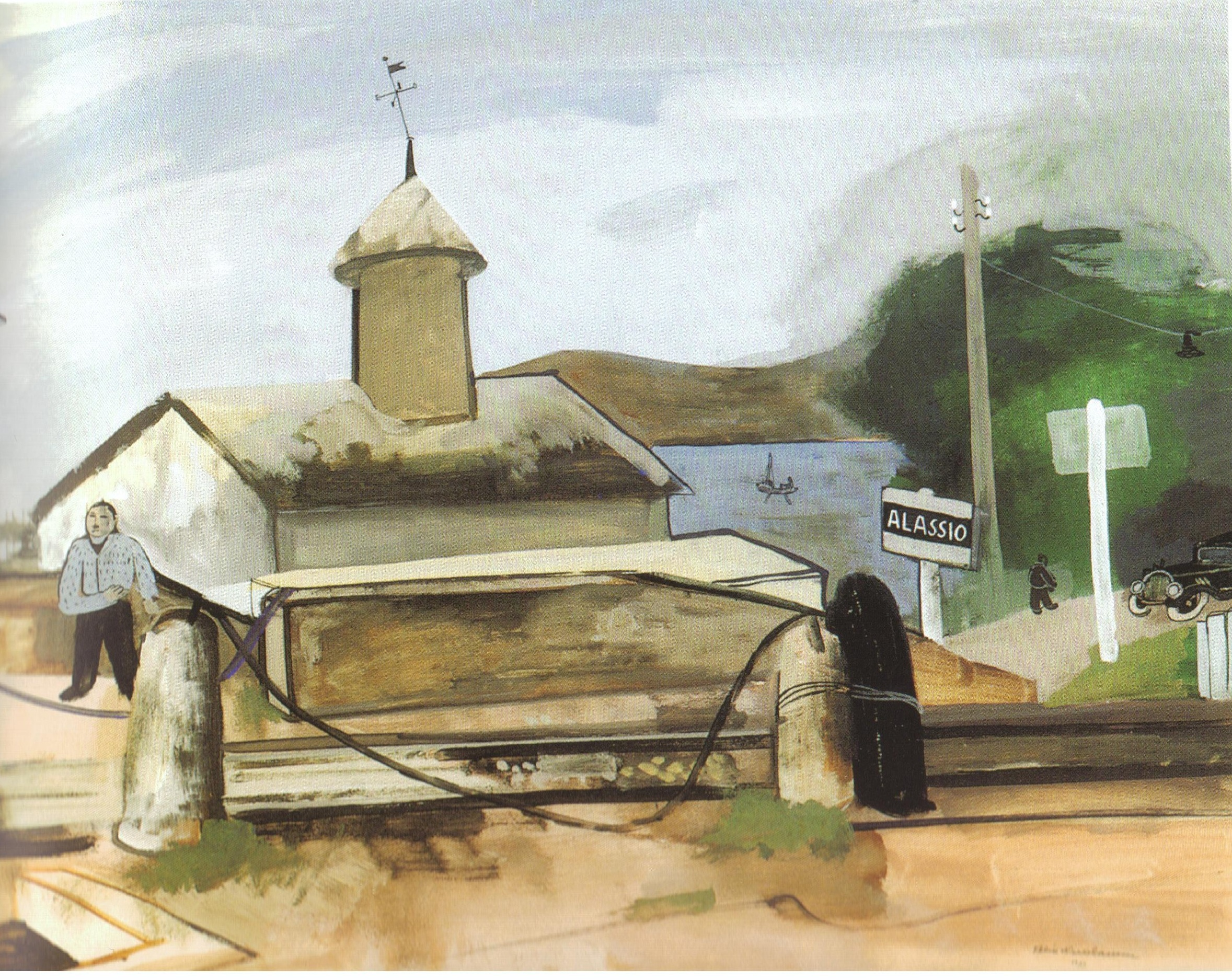 Alassio railway station. In this picture Nussbaum shows the sadness which afflicts him during the forced exile caused by the persecution of the fascism.